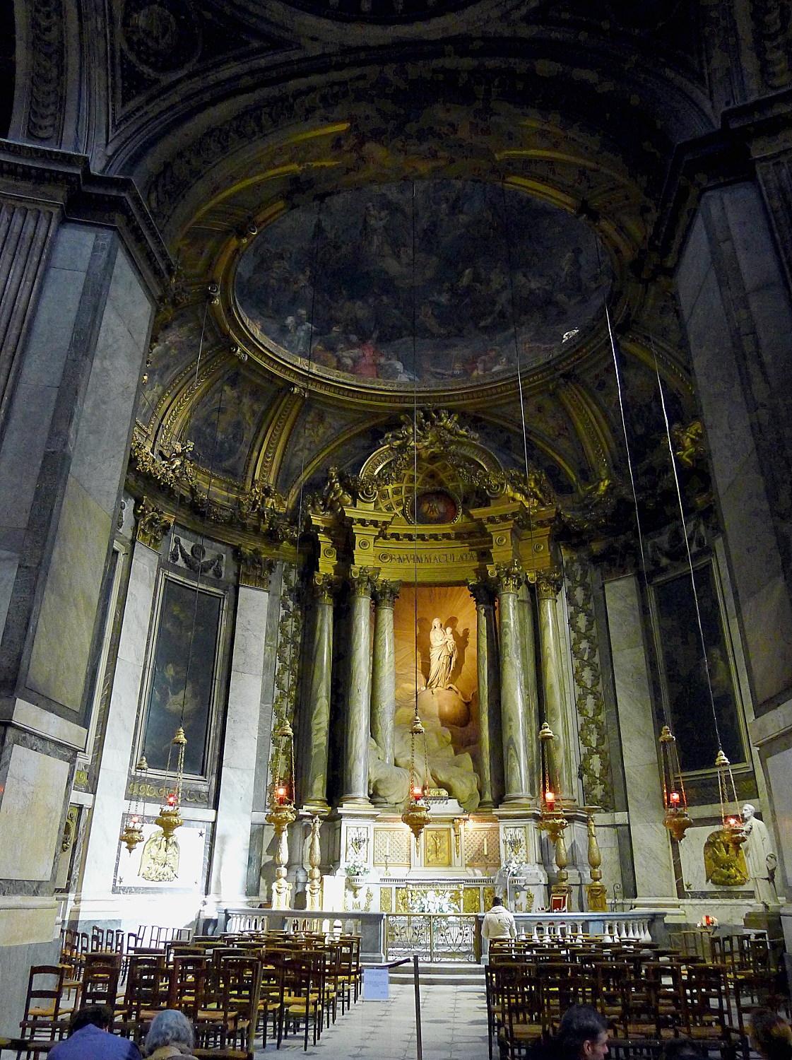 Église Saint-Sulpice - Paris